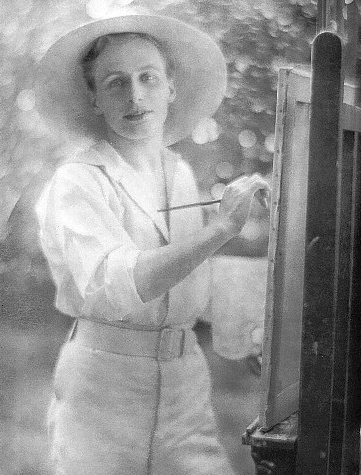 Early 20th century artist (1881 to 1941)